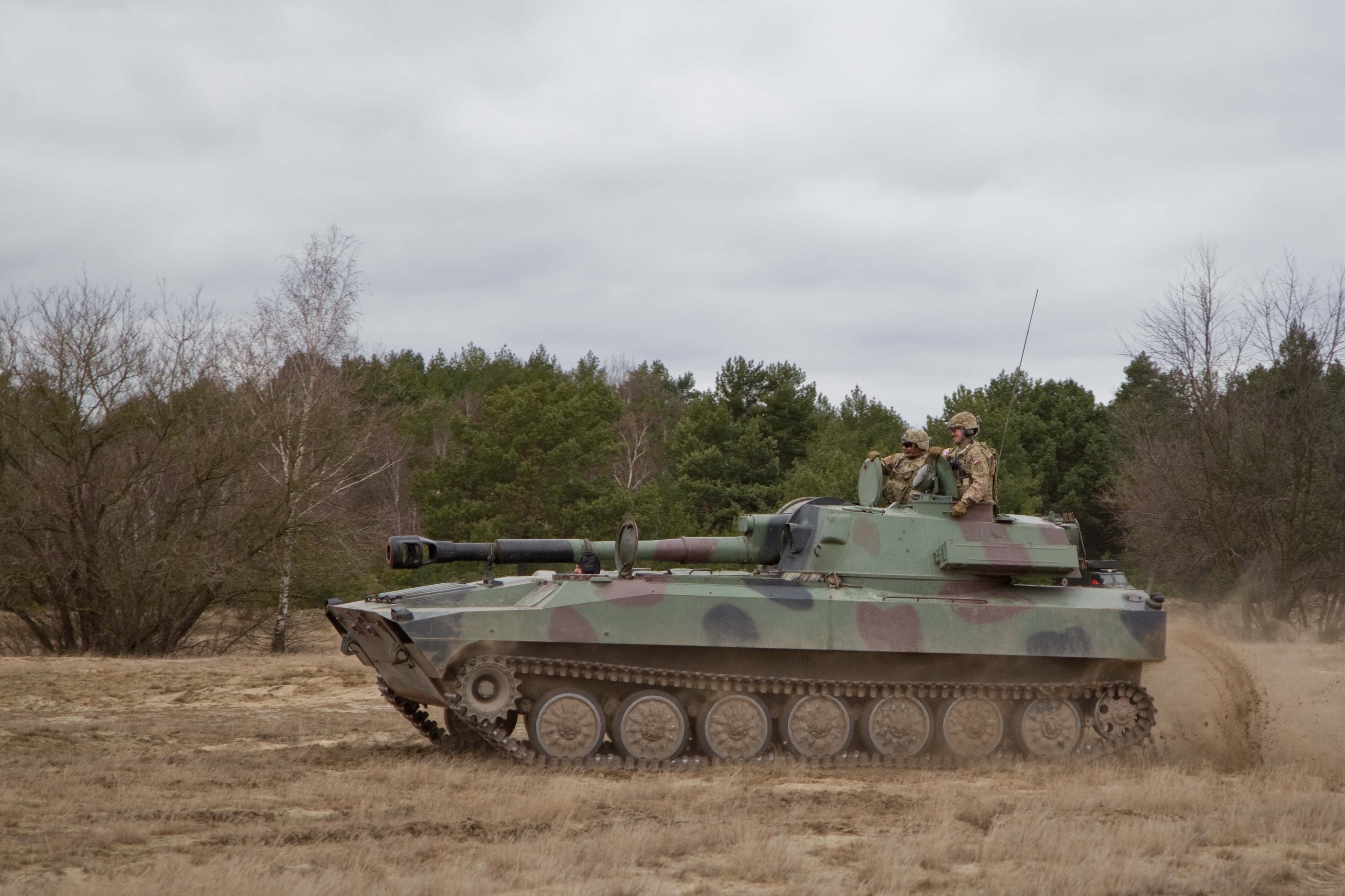 TORUN, Poland – Cobra Battery, Field Artillery Squadron, 2nd Cavalry Regiment, U.S. Army 1st. Sgt. Kirklee Daubon, senior enlisted advisor and Capt. Brandon Cummings take a ride in a Polish armored vehicle Feb 10, 2016 at the Artillery and Armaments Training Center, Torun, Poland. The Battery arrived in Torun Feb. 4 after a five-day road march from Rose Barracks, Germany. They will conduct a gunnery at the training center until Feb 13 which will qualify them to provide fire support for 3rd Squadron, 2nd Cavalry Regiment and multinational live fire exercises in Lithuania as part of Atlantic Resolve. (U.S Army photo by: Staff Sgt. Jennifer Bunn, 2nd Cavalry Regiment, Public Affairs)